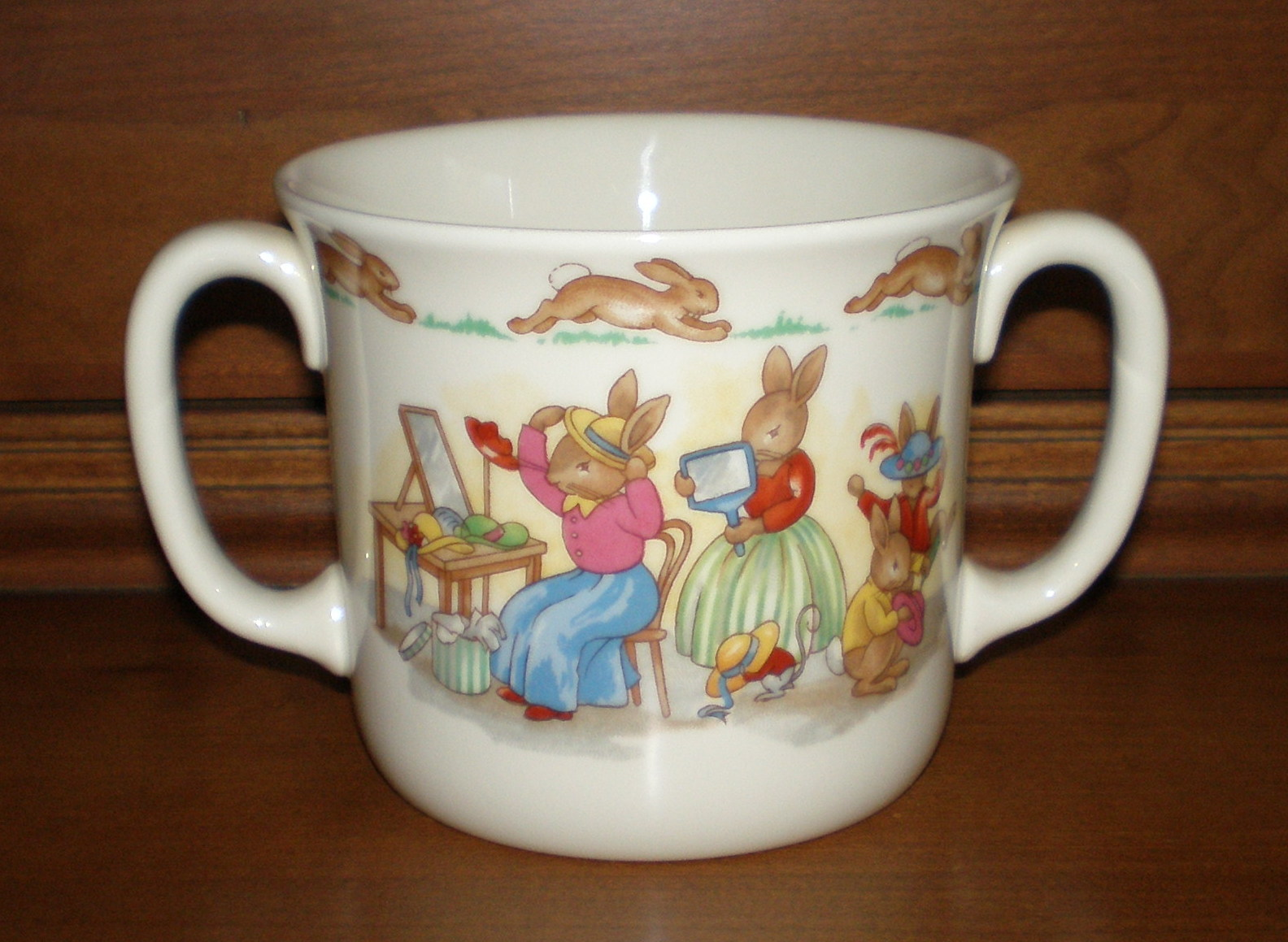 Royal Doulton Bunnykins tableware two-handled cup, design Peter Rabbit by Beatrix Potter